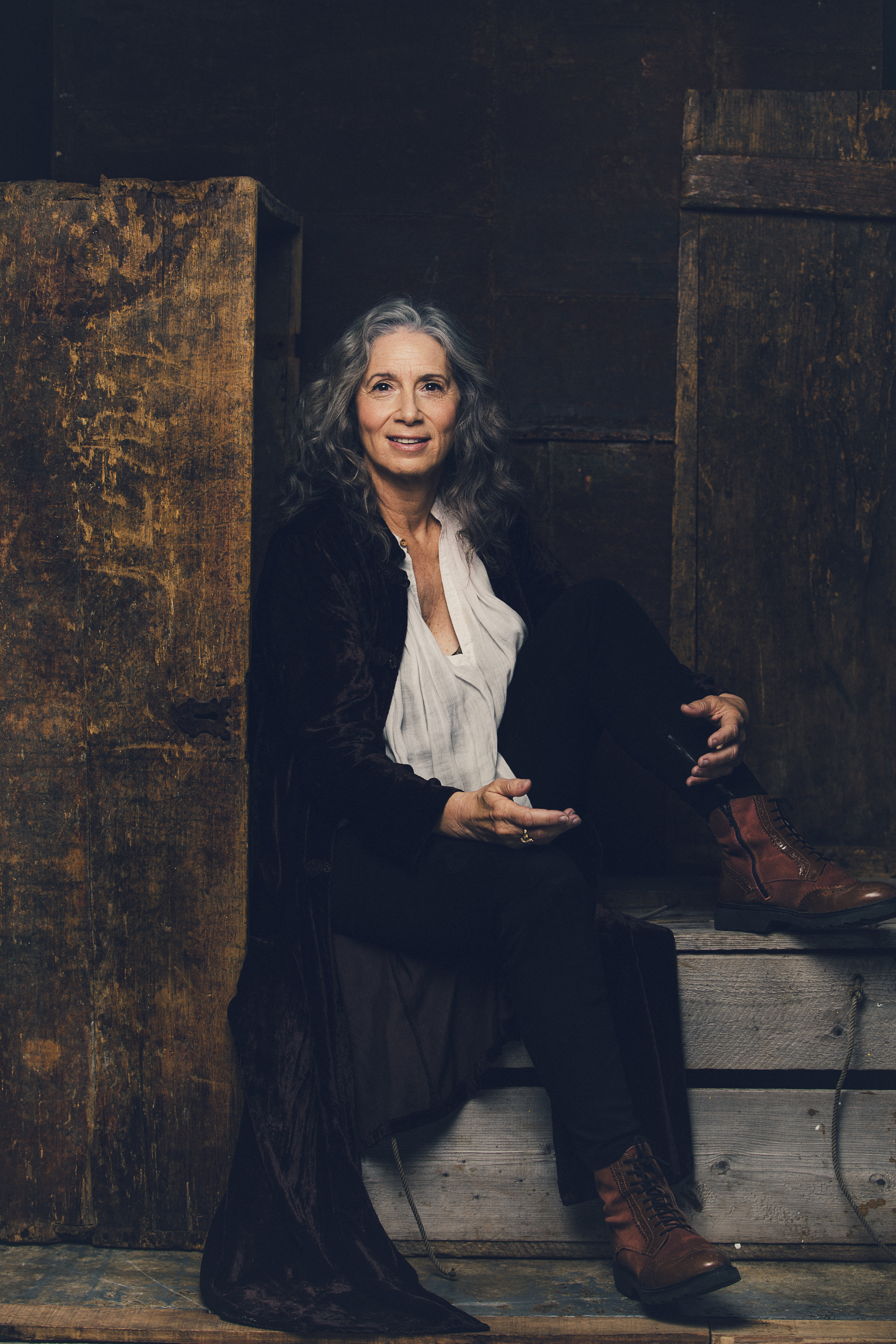 Photograph of Shelley Mitchell by David Noles